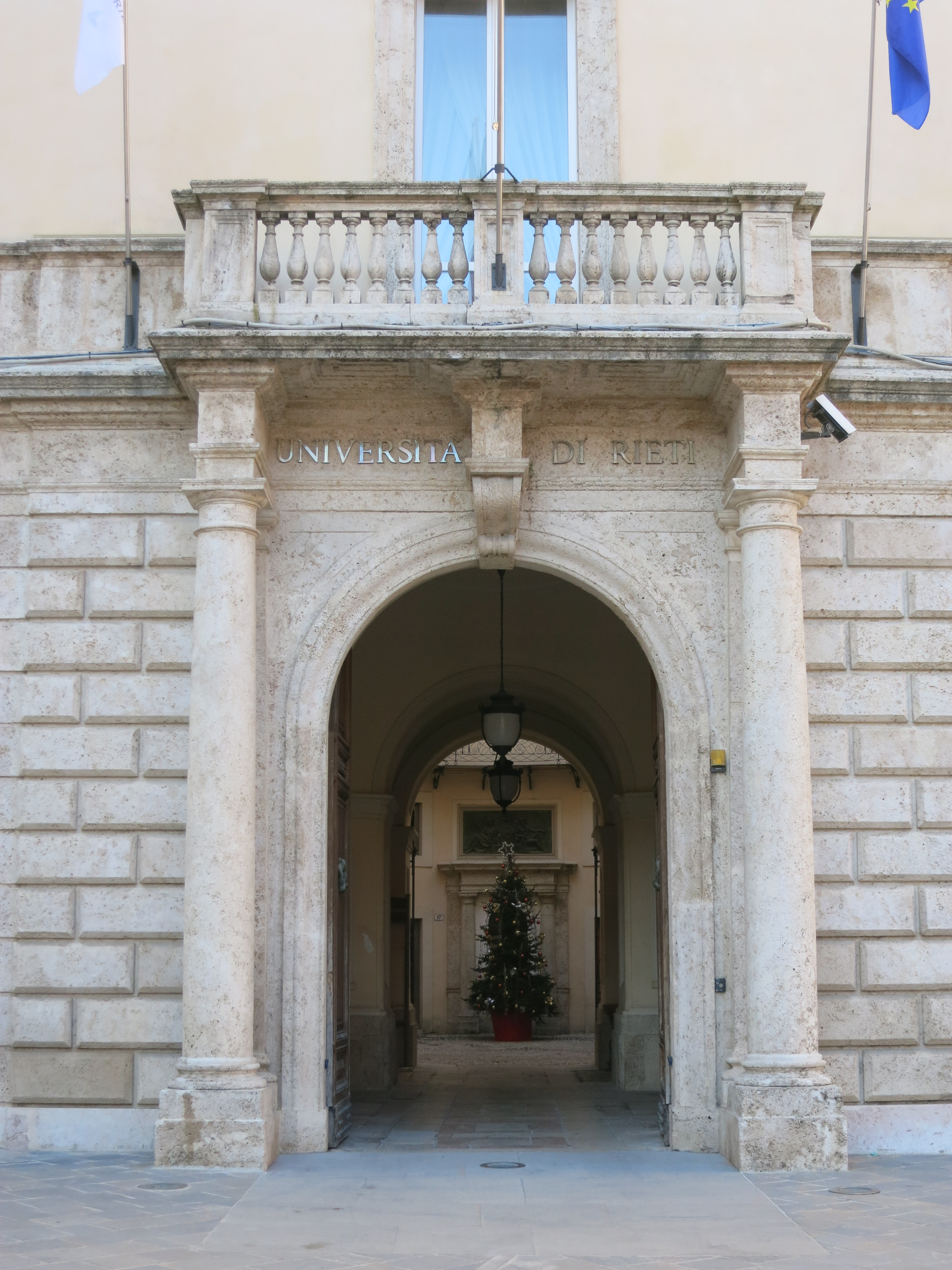 Dosi Delfini Palace - Rieti, Lazio, Italy